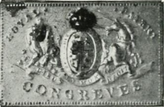 A Congreve matchbox (1827, made of tin)